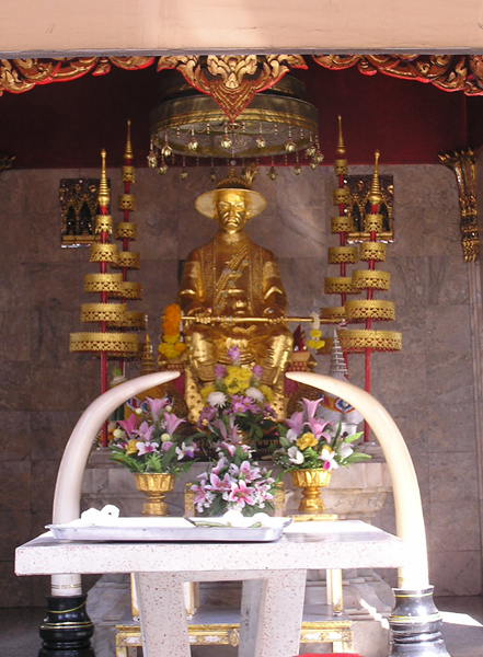 Monument of Maha Surasinghanat at Wat Chanasongkhram, Bangkok, Thailand